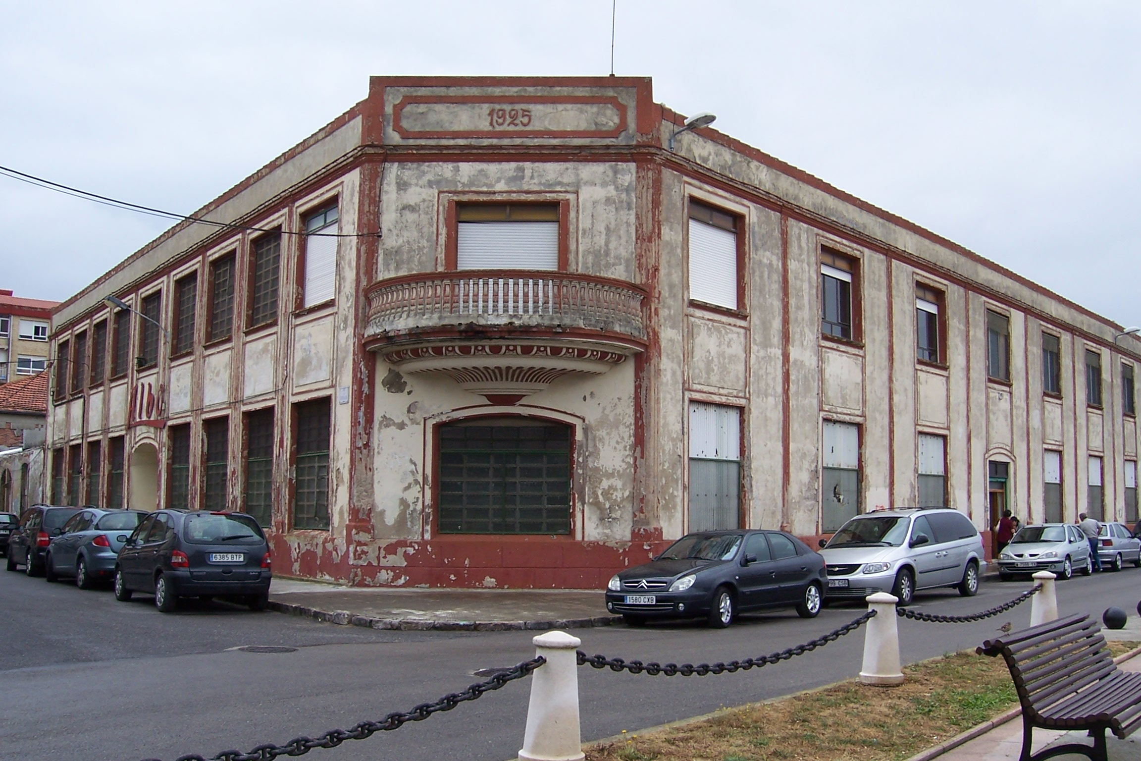 Santoña (Cantabria) Old factory of preserves Albo. The building stays but it is empty.